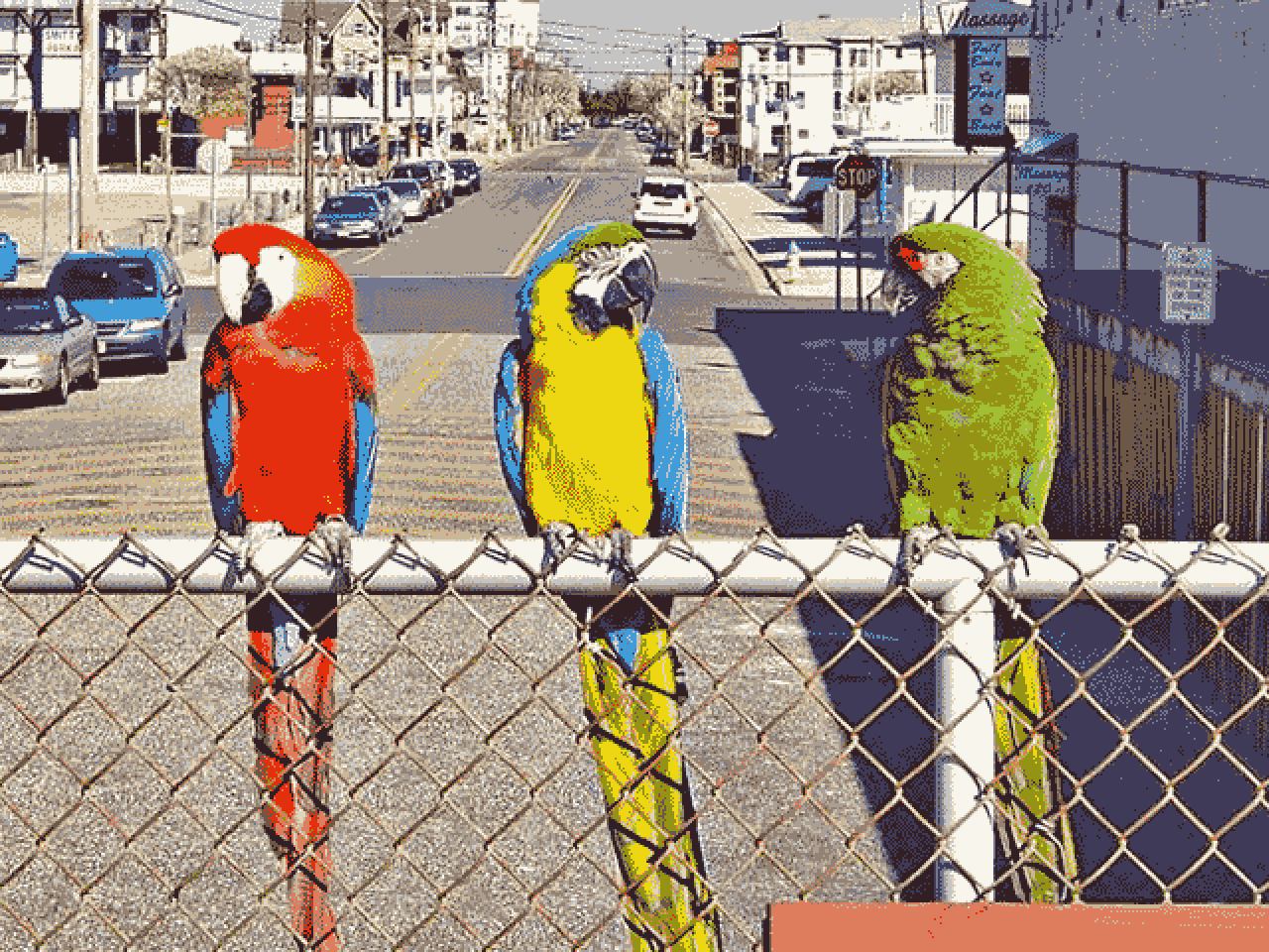 Simulated image as displayed using VGA graphics 640x480 resolution and color abilities, corrected for aspect ratio. The purpose is to compare with the same image as displayed on other early PC display adapters. A skilled artist would be able to get better results working around each adapter's limitations.